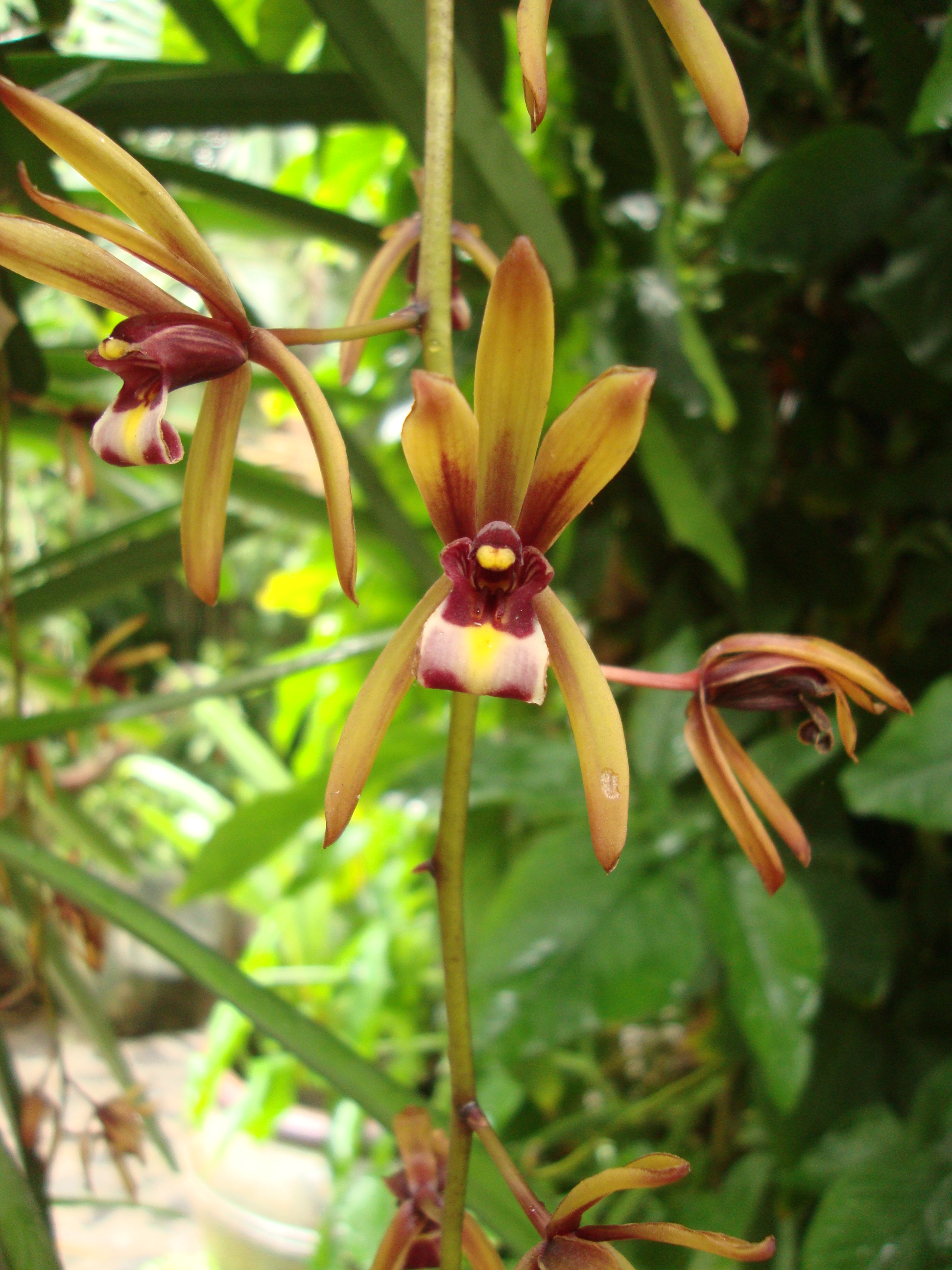 Lan kiếm, lan lô hội